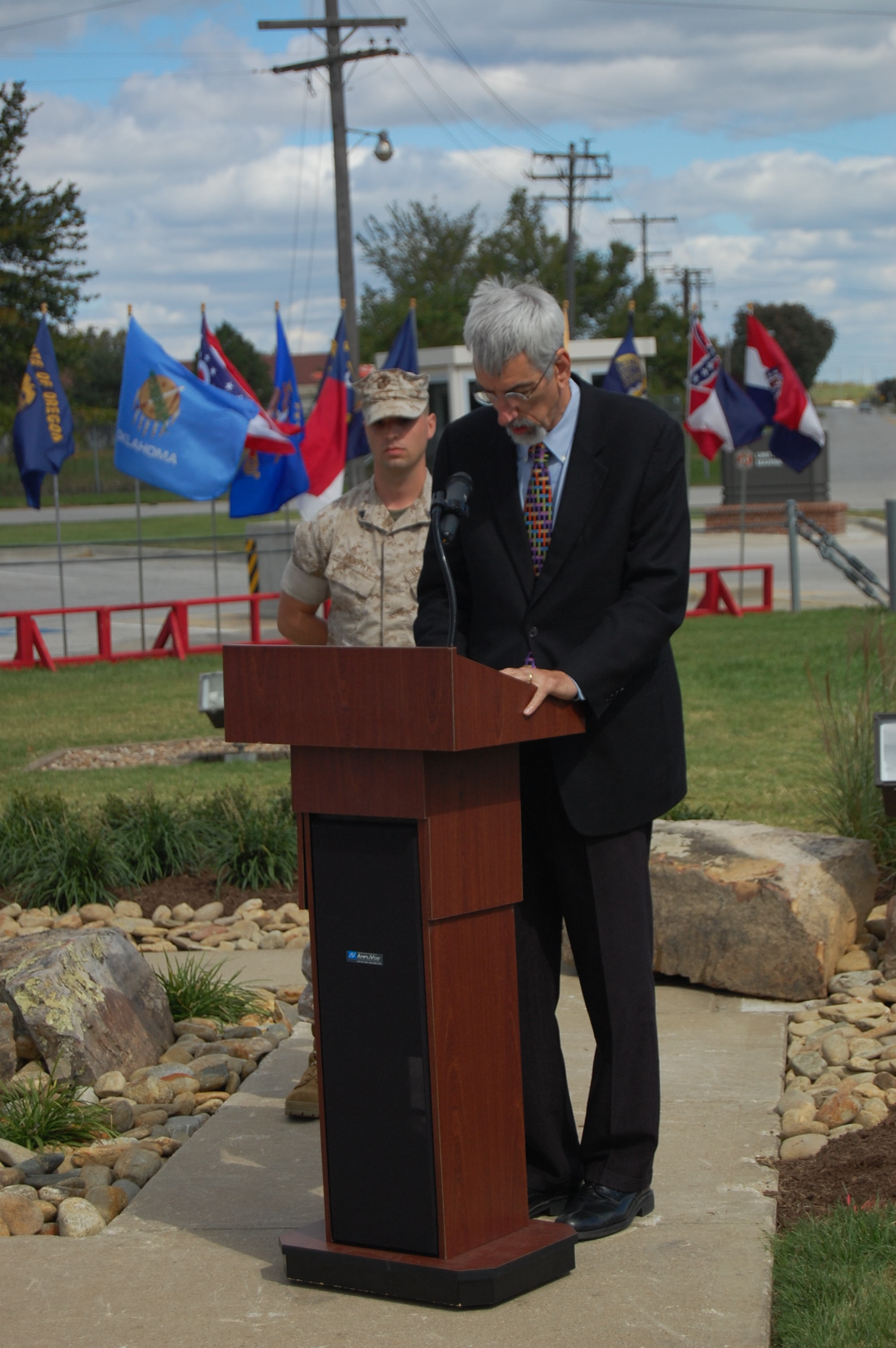 Kansas City, Mo., Mayor Mark Funkhouser delivers a few words during the Memorial Dedication ceremony Oct. 2, 2010.